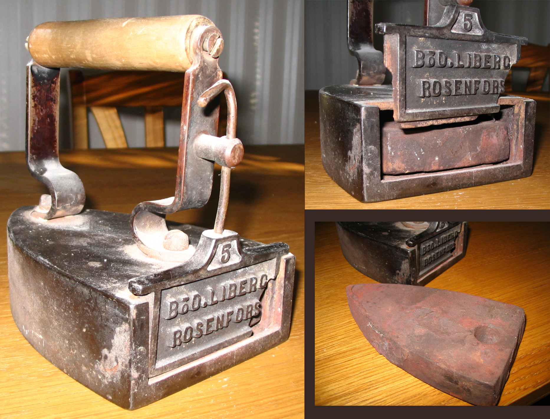 Oldfashioned iron.